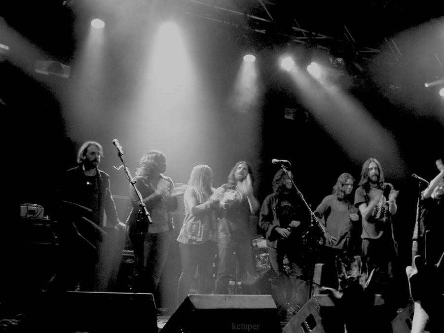 The Black Crowes 27 September 2006 - Voodoo Lounge @ Harrah's - Kansas City, MO